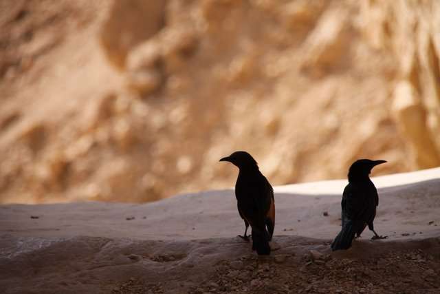 Two Tristram's Starlings at Ein Gedi, Israel